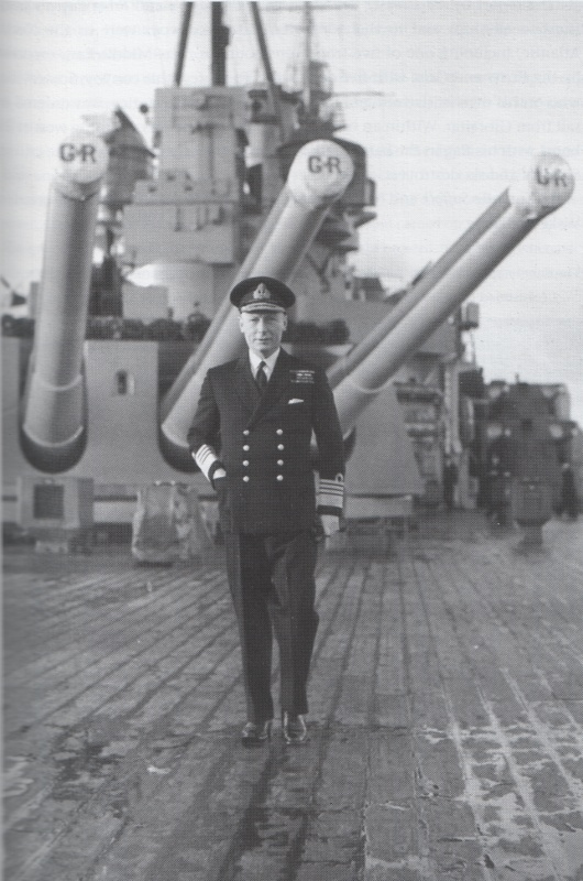 Admiral Sir John Tovey, C.-in-C. Home Fleet, on board his flagship King George V.